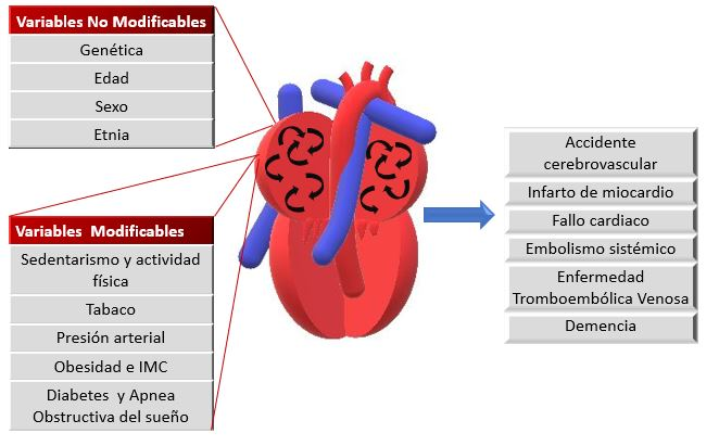 Risk factors and outcomes of atrial fibrillation